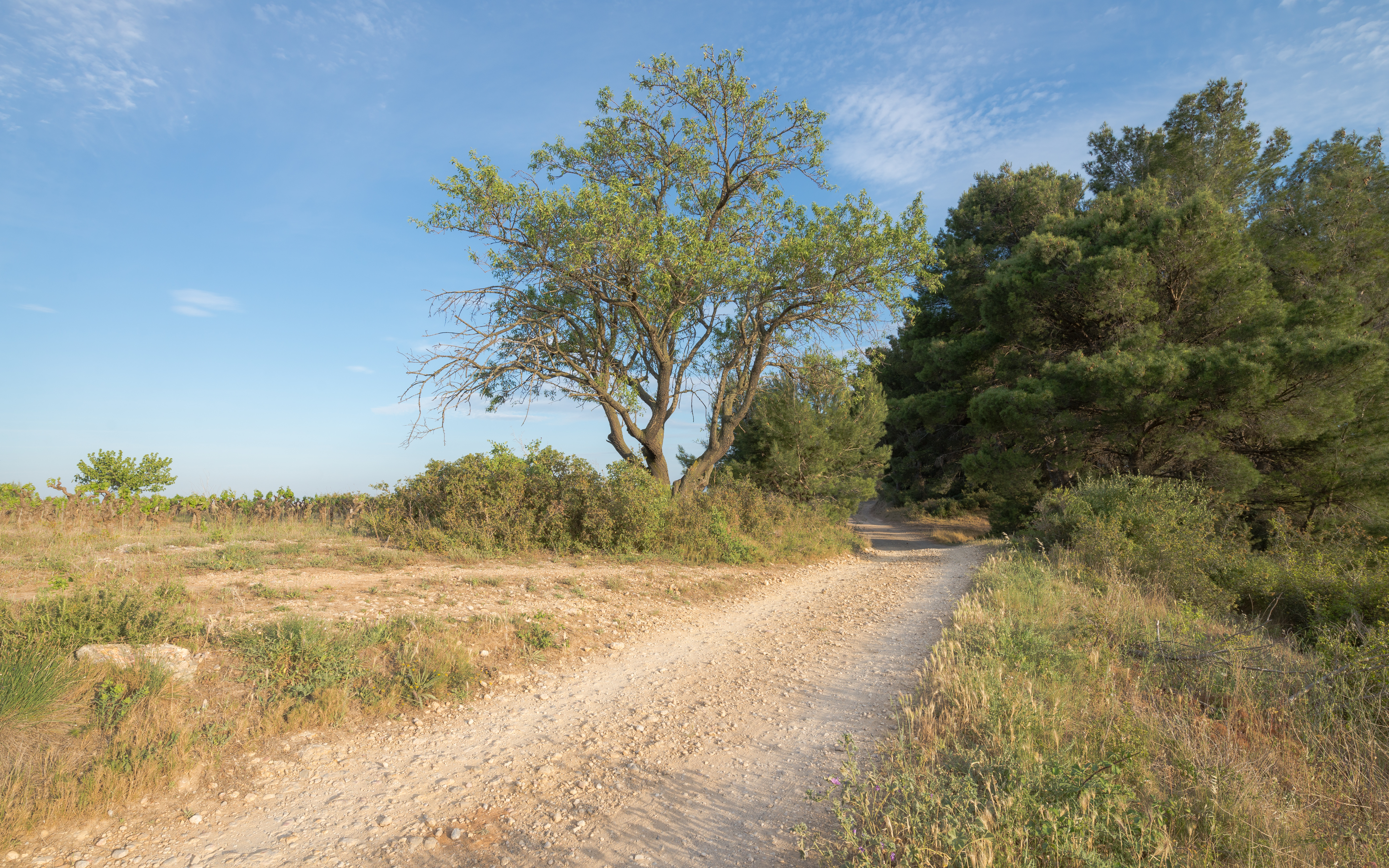 A trail in the commune of Pinet. On the left vineyards, in the middle an Almond (Prunus dulcis) and on the right Aleppo Pines (Pinus halepensis). Hérault, France.